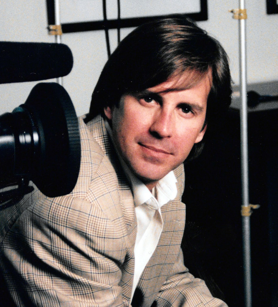 Peter Fitzgerald sits behind the camera on set at MGM Studios in Culver City, CA